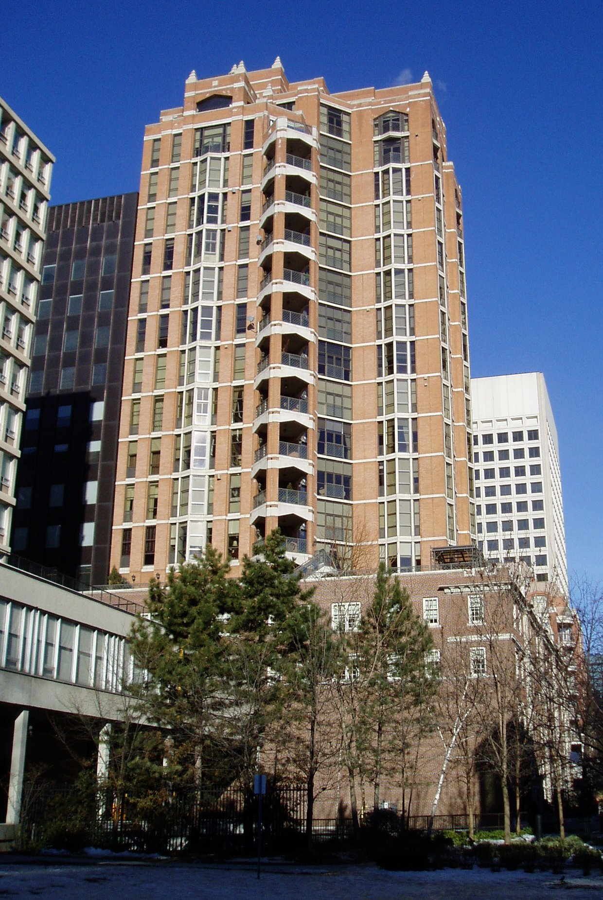 Windsor Arms Hotel. The original building was completed in 1927, then demolished in 1997, while the tower was built in 1998 with a similar building at the base.